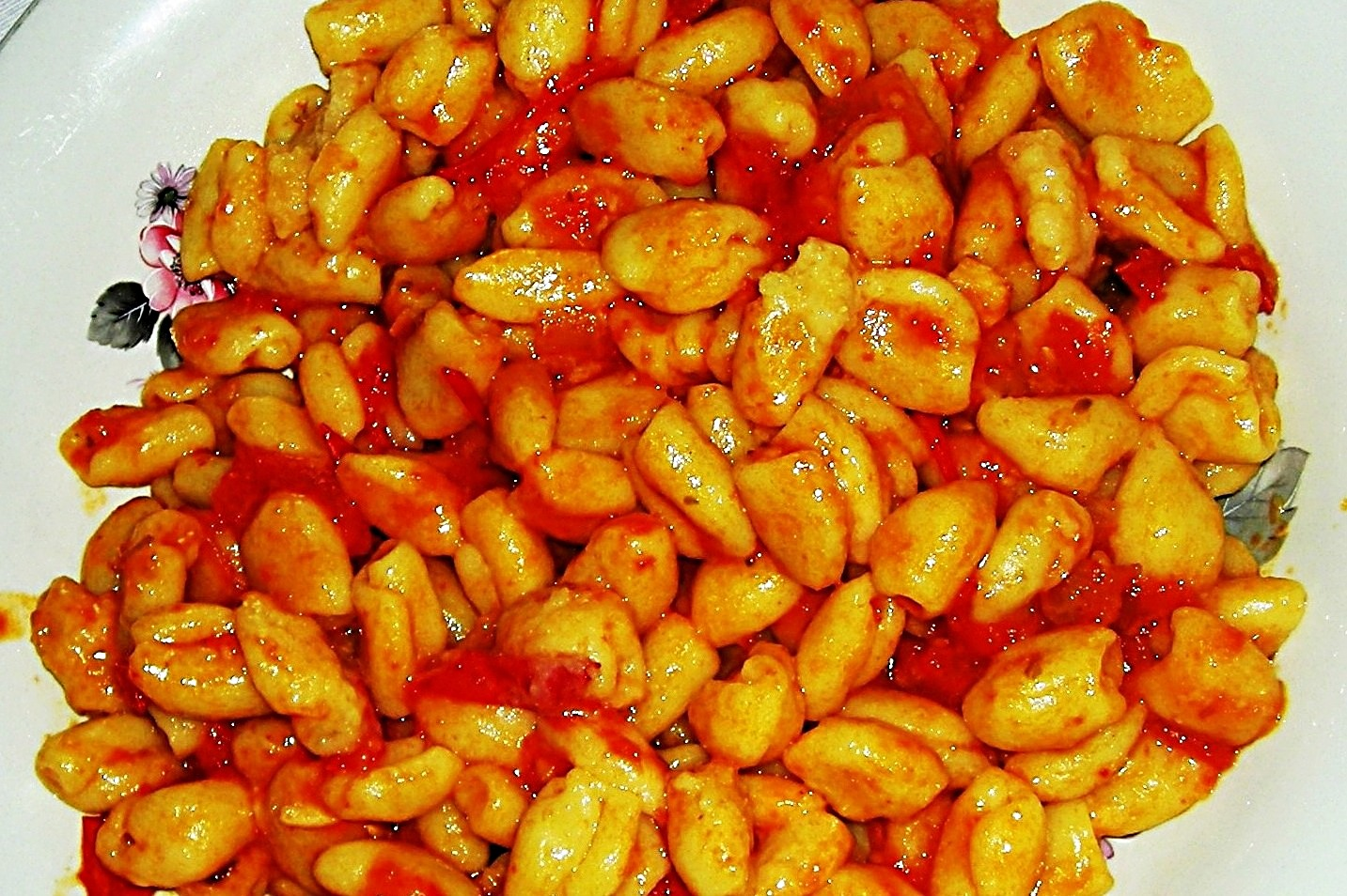 Macarrones de ungia : traditional Sardinian food dish